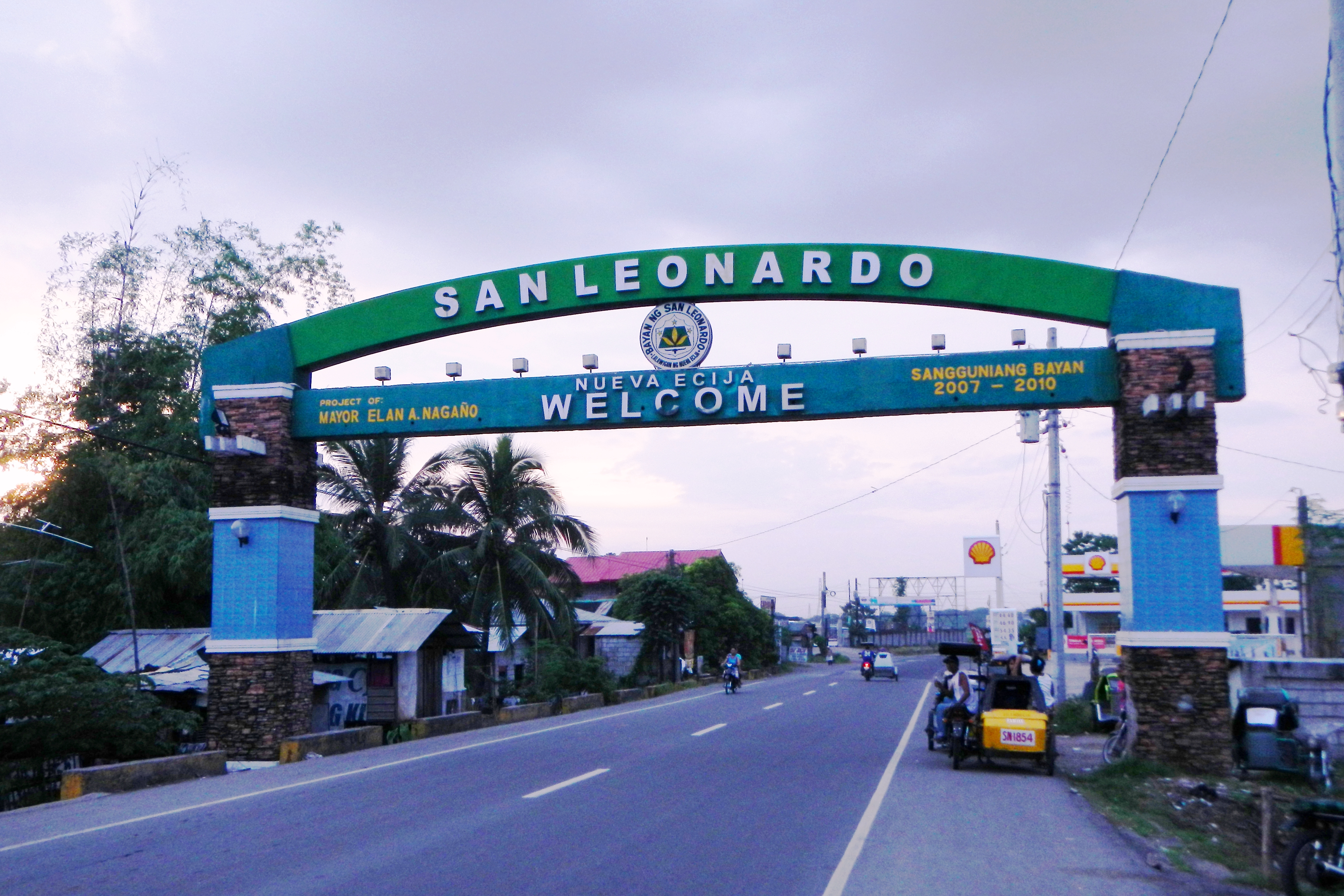 Welcome sign of San Leonardo, Nueva Ecija, Philippines